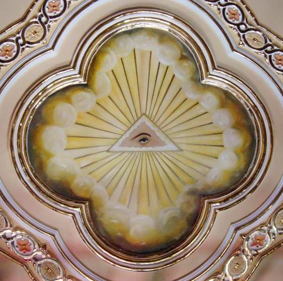 Saint Peter Apostol Church, Almoloya de Alquisiras, Mexico state, Mexico